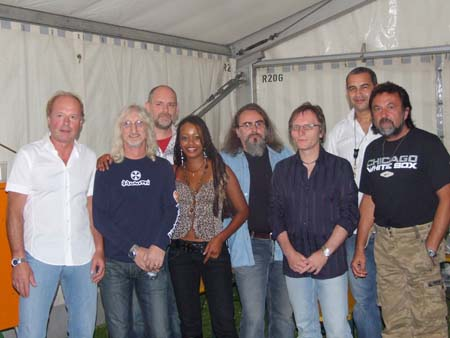 Bromm Oss in der Come-back-Besetzung 2008-2009